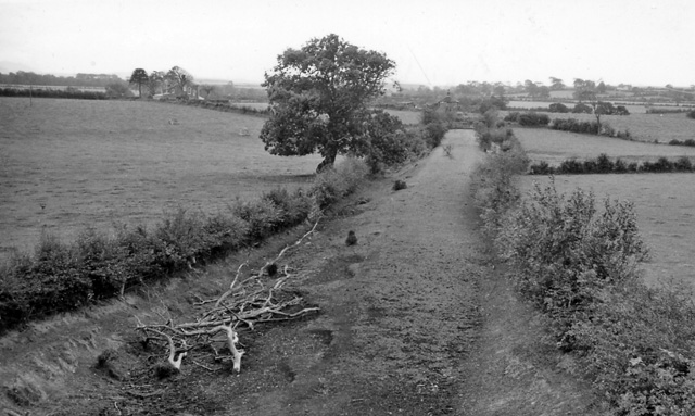 Site of Bromfield (Cumberland) Station. View southward, towards Brayton; ex-Caledonian (Solway Junction) line, Kirtlebridge - Annan - Solway Viaduct - Brayton. The line over the Solway Viaduct and south to Brayton together with Bromfield station had been closed for 40 years, since 1/9/21. See also my NY2162 : Bowness-on-Solway Station (converted) and NY1643 : Brayton Station (remains).